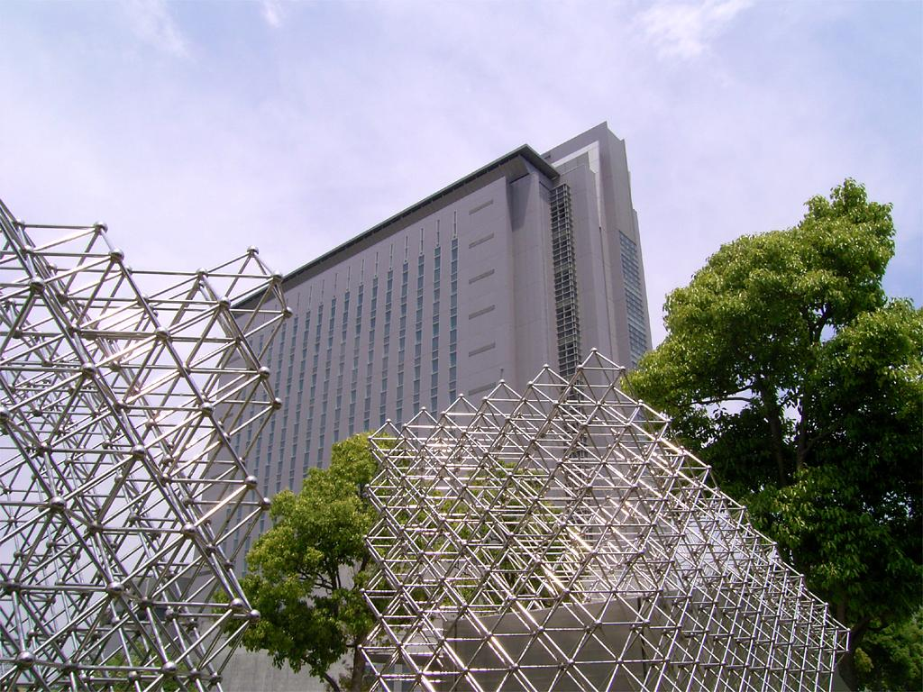 Mitsubishi Tokyo UFJ Bank Chiba Center Bldg.